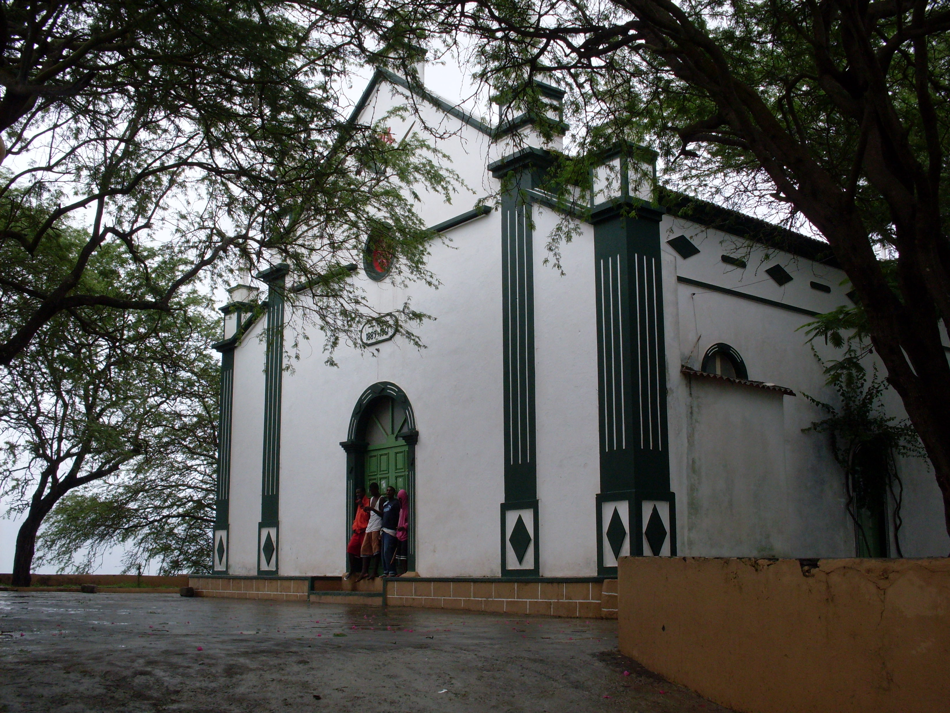 The church of Santa Catarina in Achada Falcão, in Santiago, Cape Verde